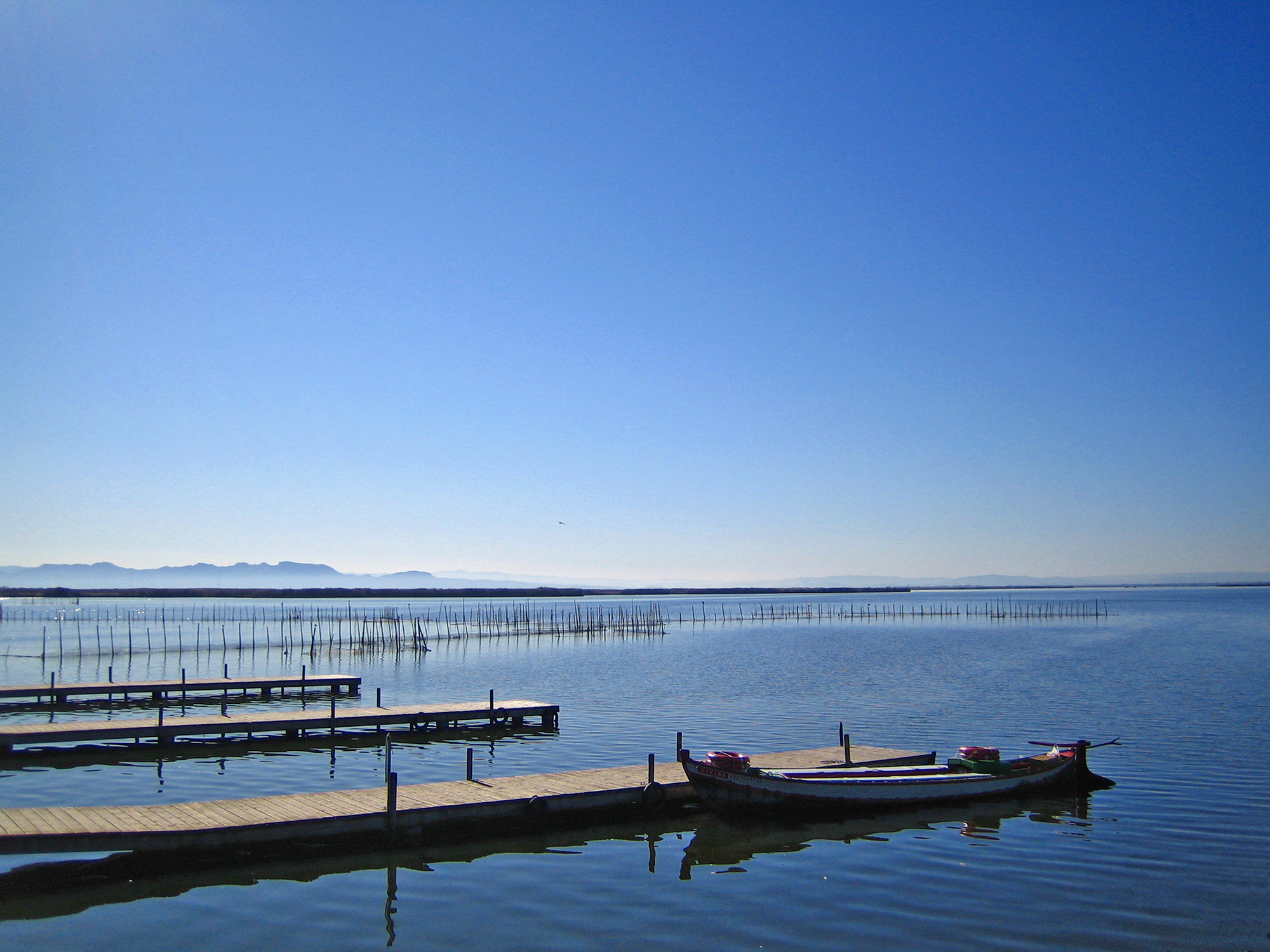 View of the Albufera lagoonin valencia, Spain.